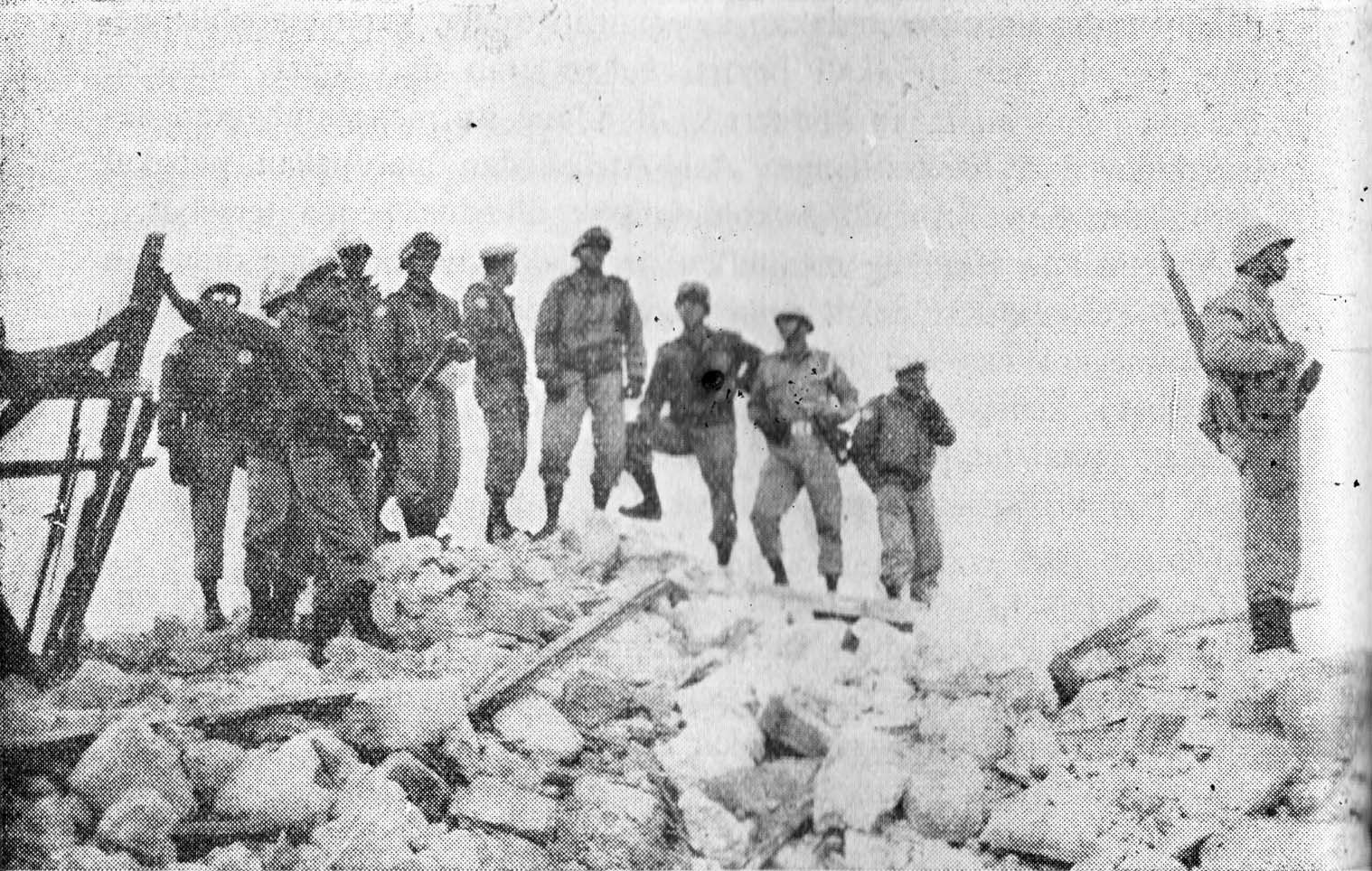 Indonesian peacekeepers at El Kuntilla, Sinai